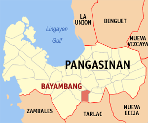 Map of Pangasinan showing the location of Bayambang